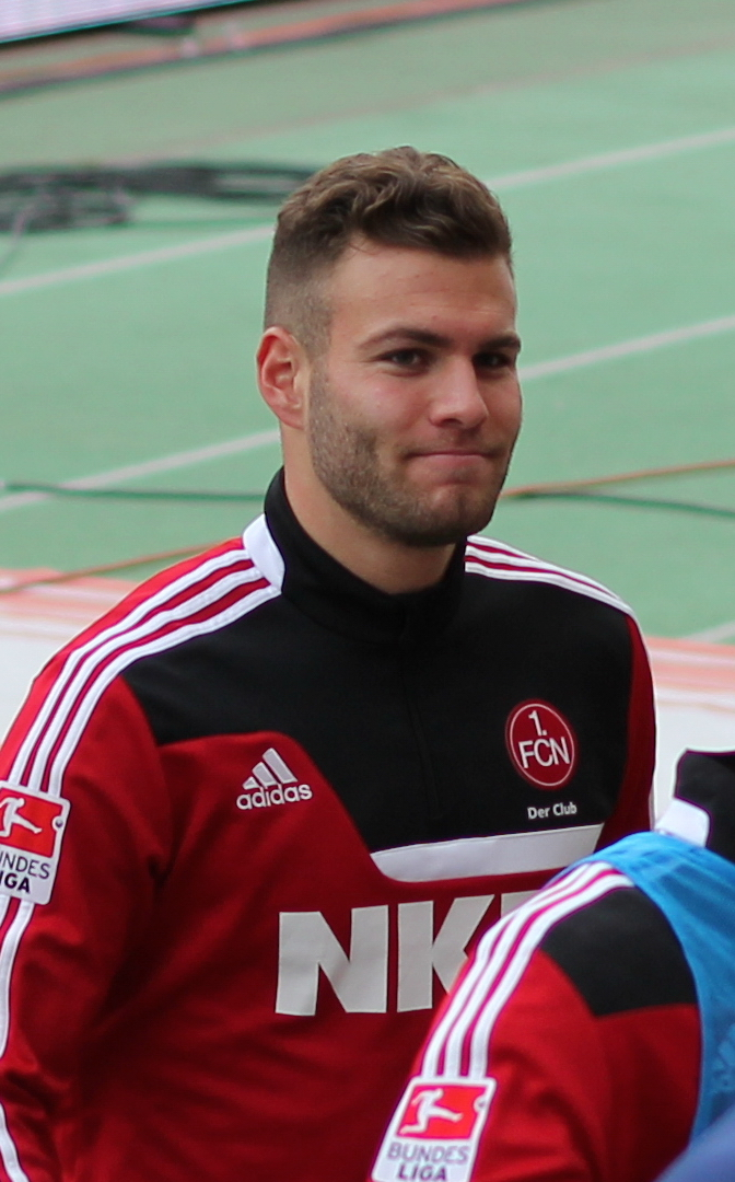 Berkay Dabanlı, football player for German side 1. FC Nürnberg, 2013/14 season